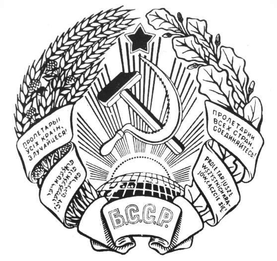 Emblem_of_Byelorussian_SSR_1937